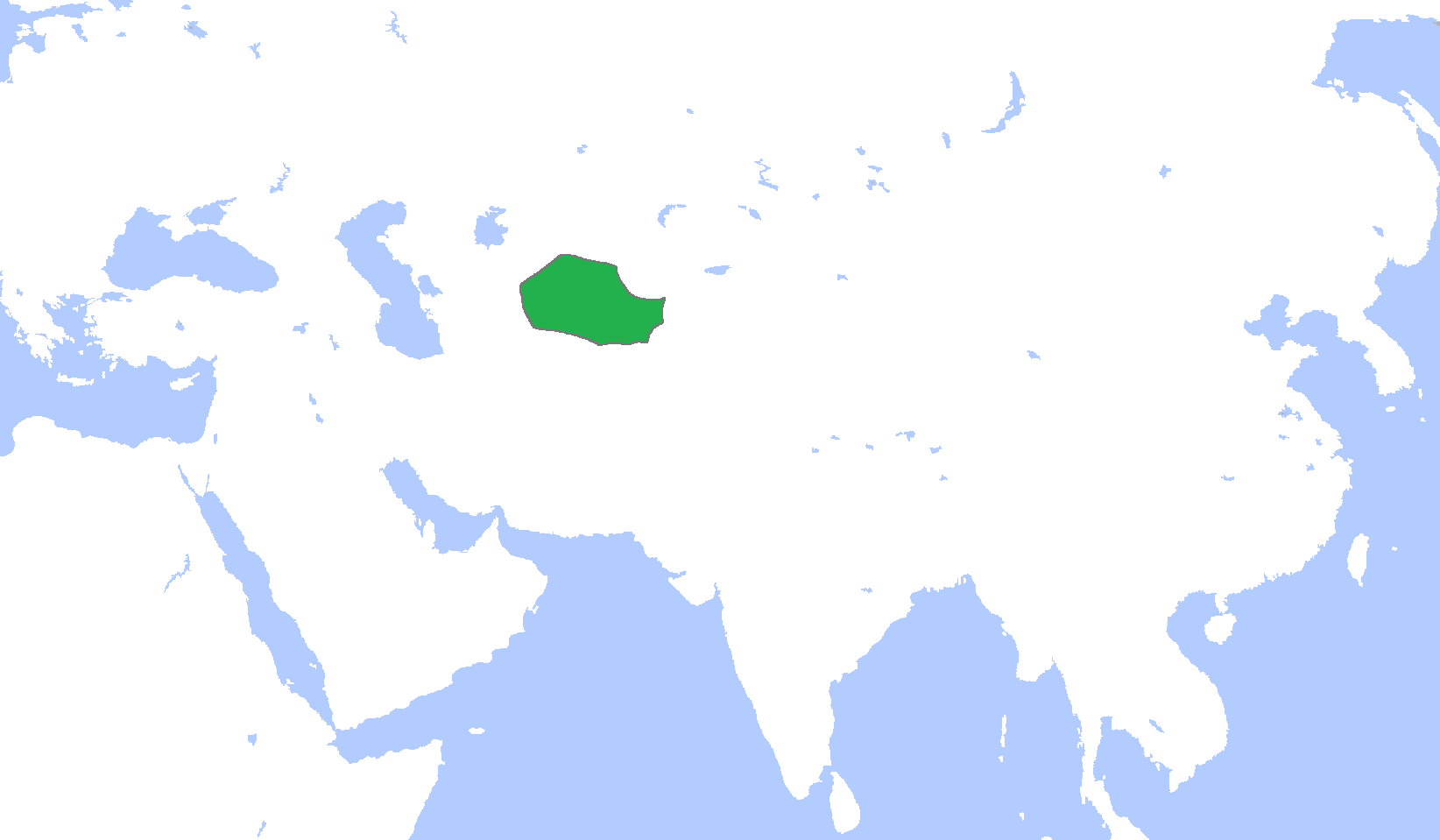 Locator map of the Emirate of Bukhara, c. 1850. (Partially based on Atlas of World History (2007) - The World 1800-1850, map)